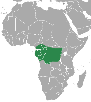 Cameroon Clawless Otter (Aonyx capensis congicus) range